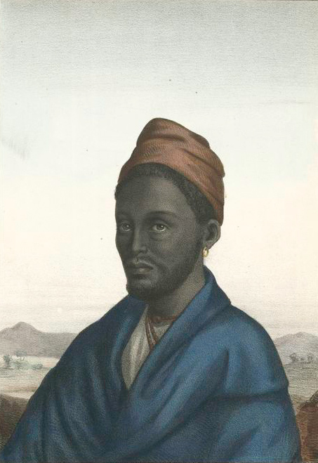 Serer man